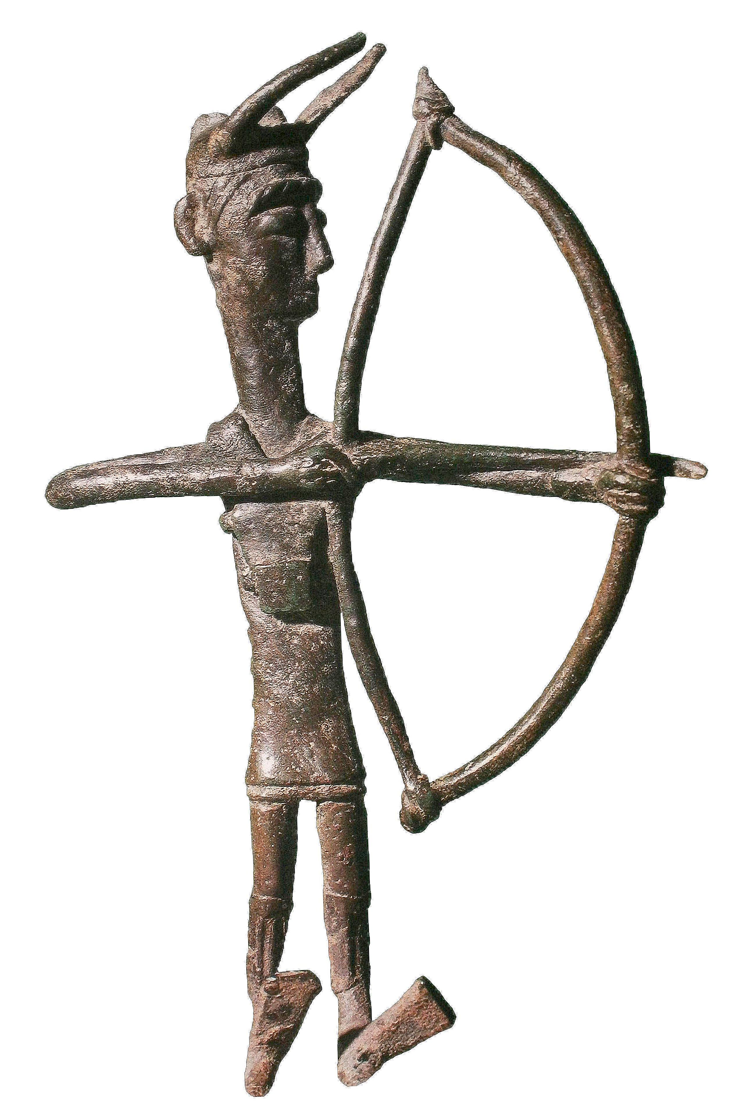 Sardinia, Nuragic civilisation: Bronze archer. Bronzetto nuragico: arciere. Cagliari - Italy - Museo Archeologico Nazionale Own work --Shardan 16:46, 14 September 2007 (UTC)